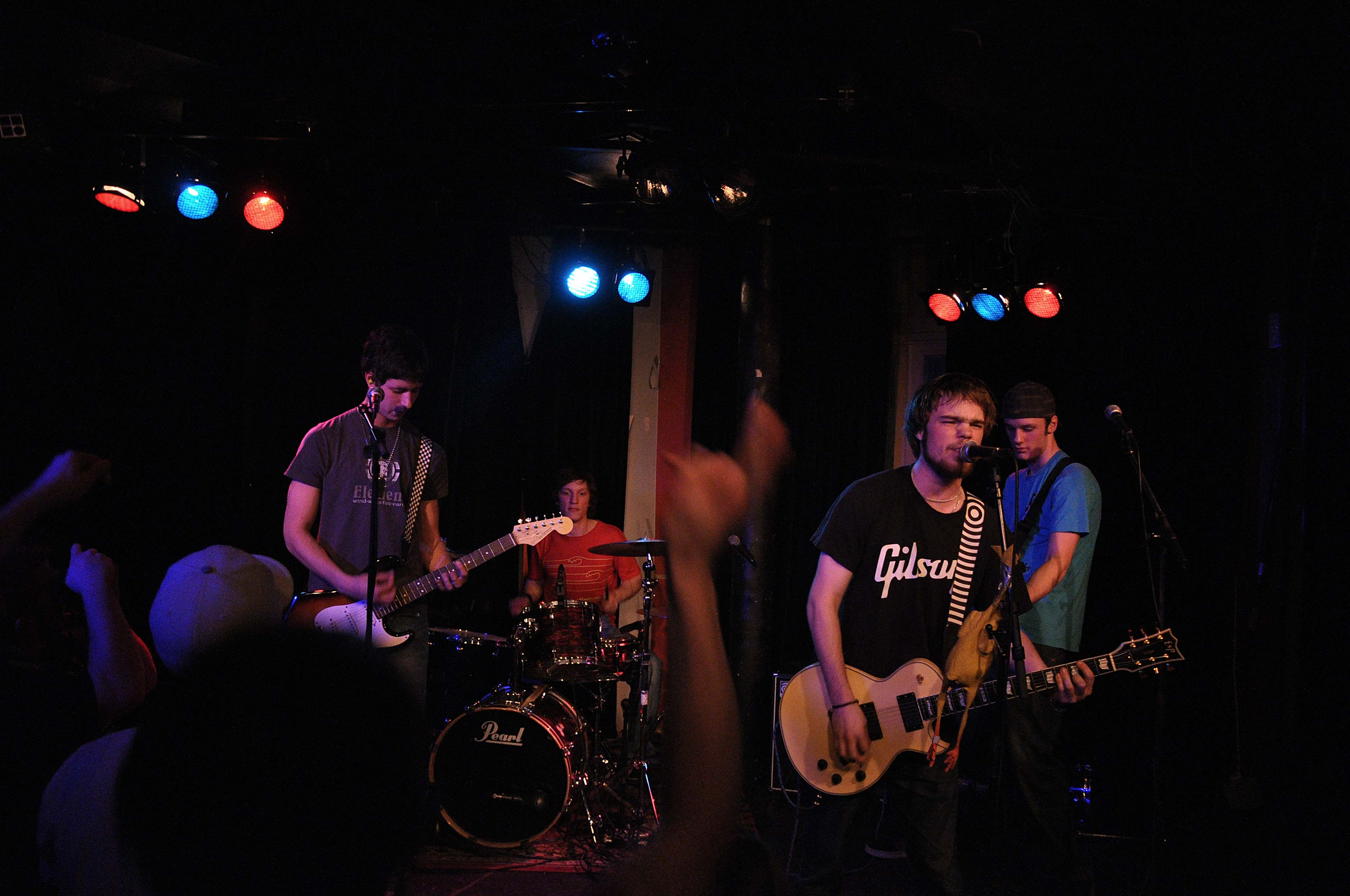 One Leg Short live at Mosebacke 01/04/09.